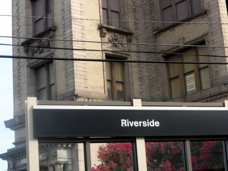 Philadelphia Watch Case Company Building This photo was taken in Riverside Township, NJ.